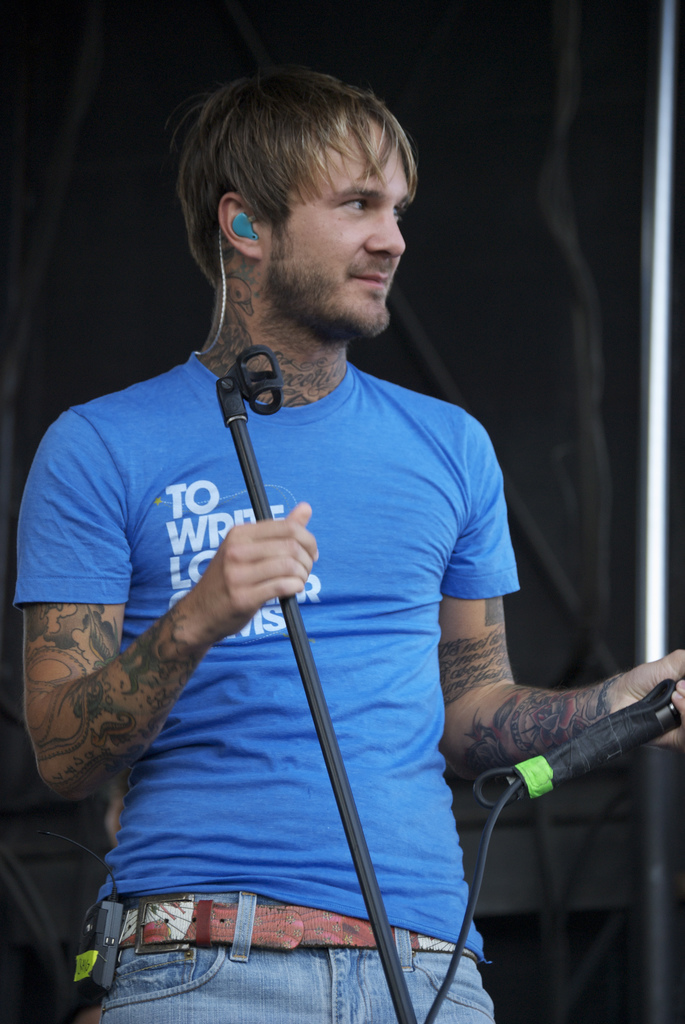 According to Ashley, "This photo was taken on July 18, 2009 using a Nikon D60." The picture is of American musician Craig Owens, performing at the Vans Warped Tour